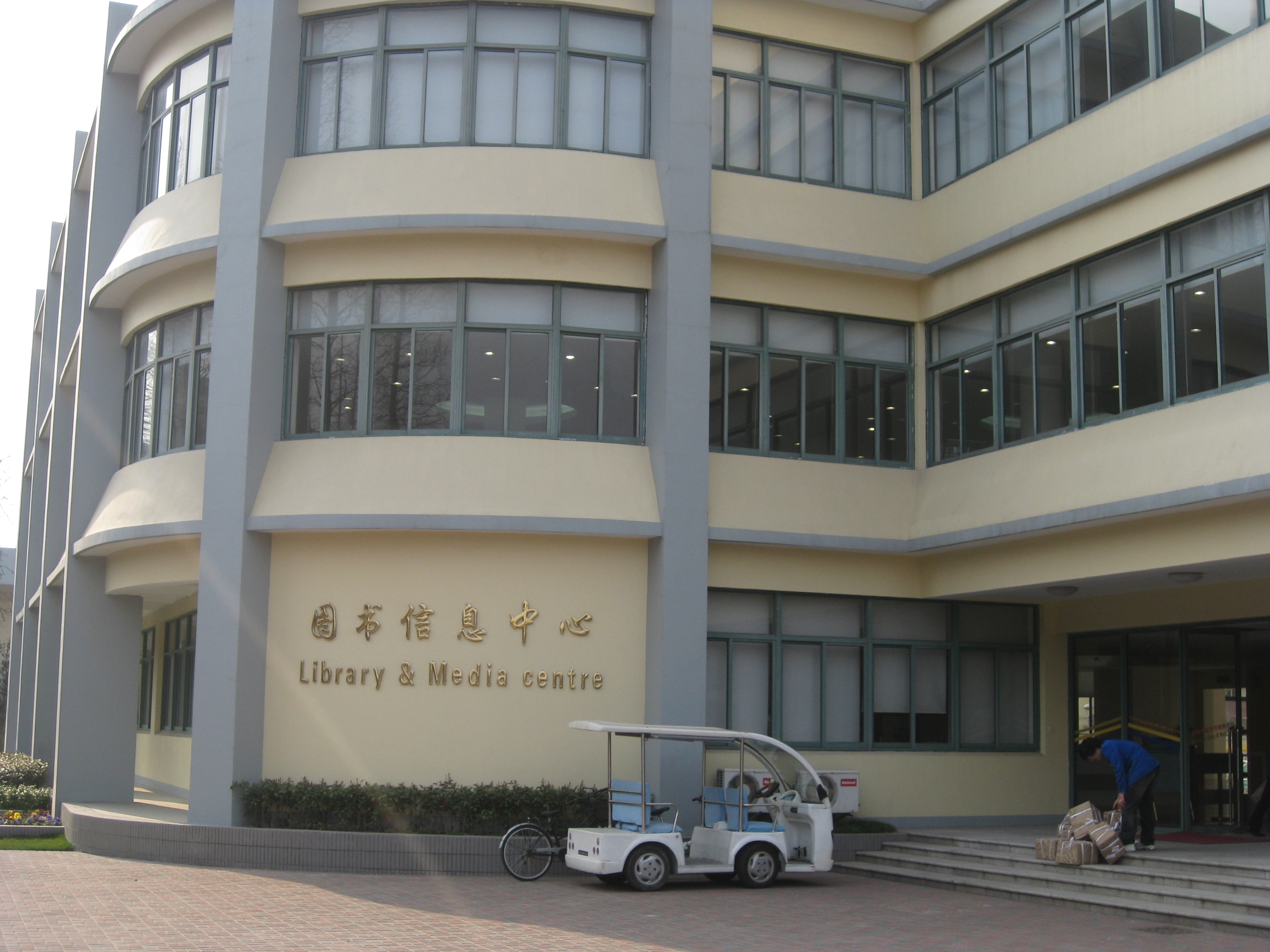 A picture of the SHSID library and media center.